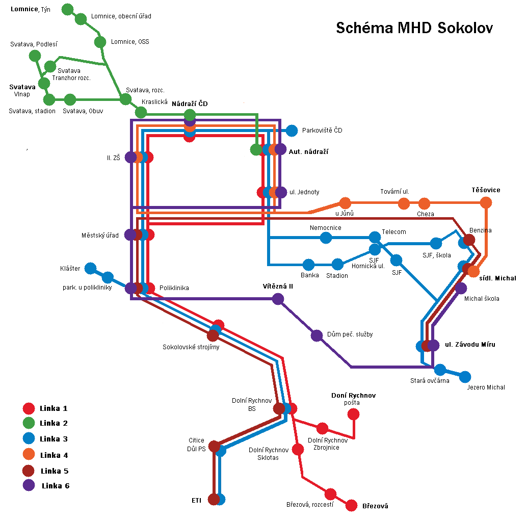 Map of buses in Sokolov